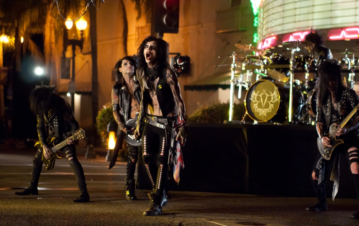 Black Veil Brides Video shoot